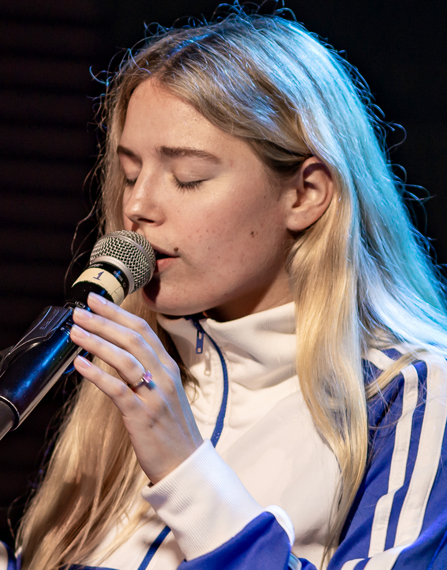 Ashe performing live at "Jetta Haus" at Playa Studios in Los Angeles, California, on Sunday, May 20, 2018.